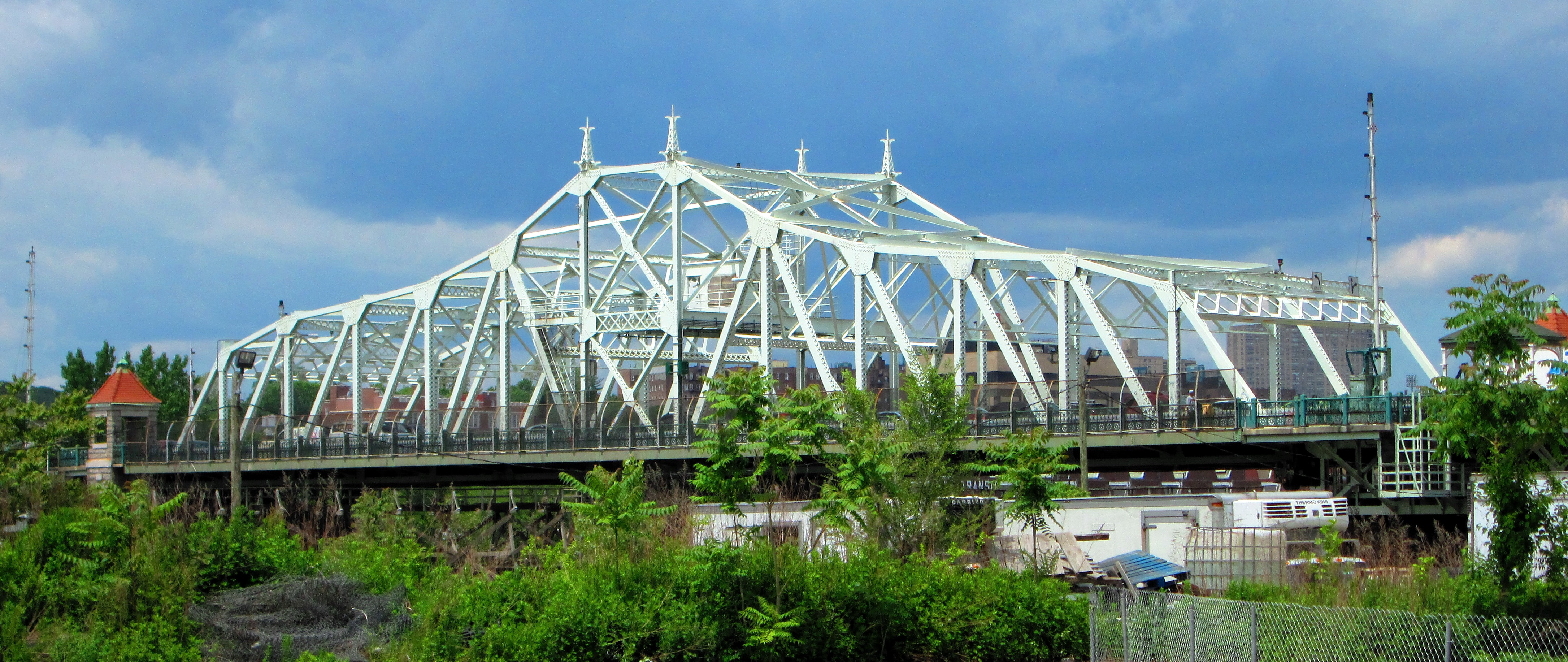 The University Heights Bridge crosses the Harlem River, connecting West 207th Street in the Inwood neighborhood of Manhattan to West Fordham Road in the University Heights section of the Bronx. The steel-truss revolving swing bridge is operated and maintained by the New York City Department of Transportation and carries two lanes of traffic in each direction, along with a sidewalk with four shelters with cast-iron piers on the south side of the bridge. The bridge has three masonry piers, and the approach spans are made of steel. The bridge has a "graceful" profile with "ornate" iron railings and two stone pavilions. The original was designed by consulting engineer William H. Burr with Alfred Pancoast Boller, who was particularly responsible for its aesthetics, and Paul W. Birdsall, and was constructed in 1893-95 as the Harlem Ship Canal Bridge between Upper Manhattan and Marble Hill. It was relocated in 1905-08 under the supervision of chief engineer Othniel F. Nichols. The current, wider bridge was built in 1989-92, utilizing some of the latticework of the original. (Sources: Guide to NYC Landmarks (4th ed.) and AIA Guide to NYC (5th ed.))